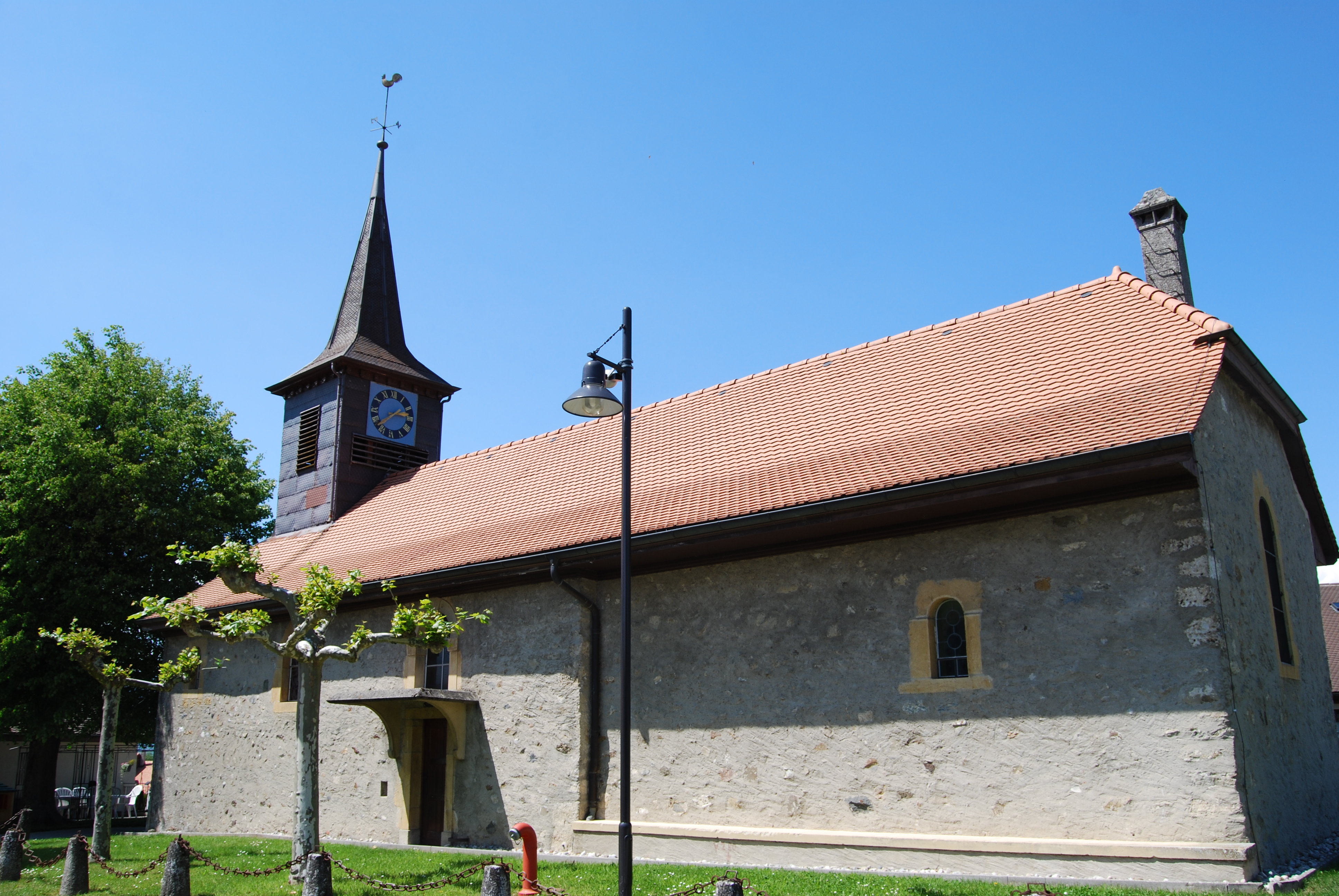 Saint Georges Church of Pomy, canton of Vaud, Switzerland